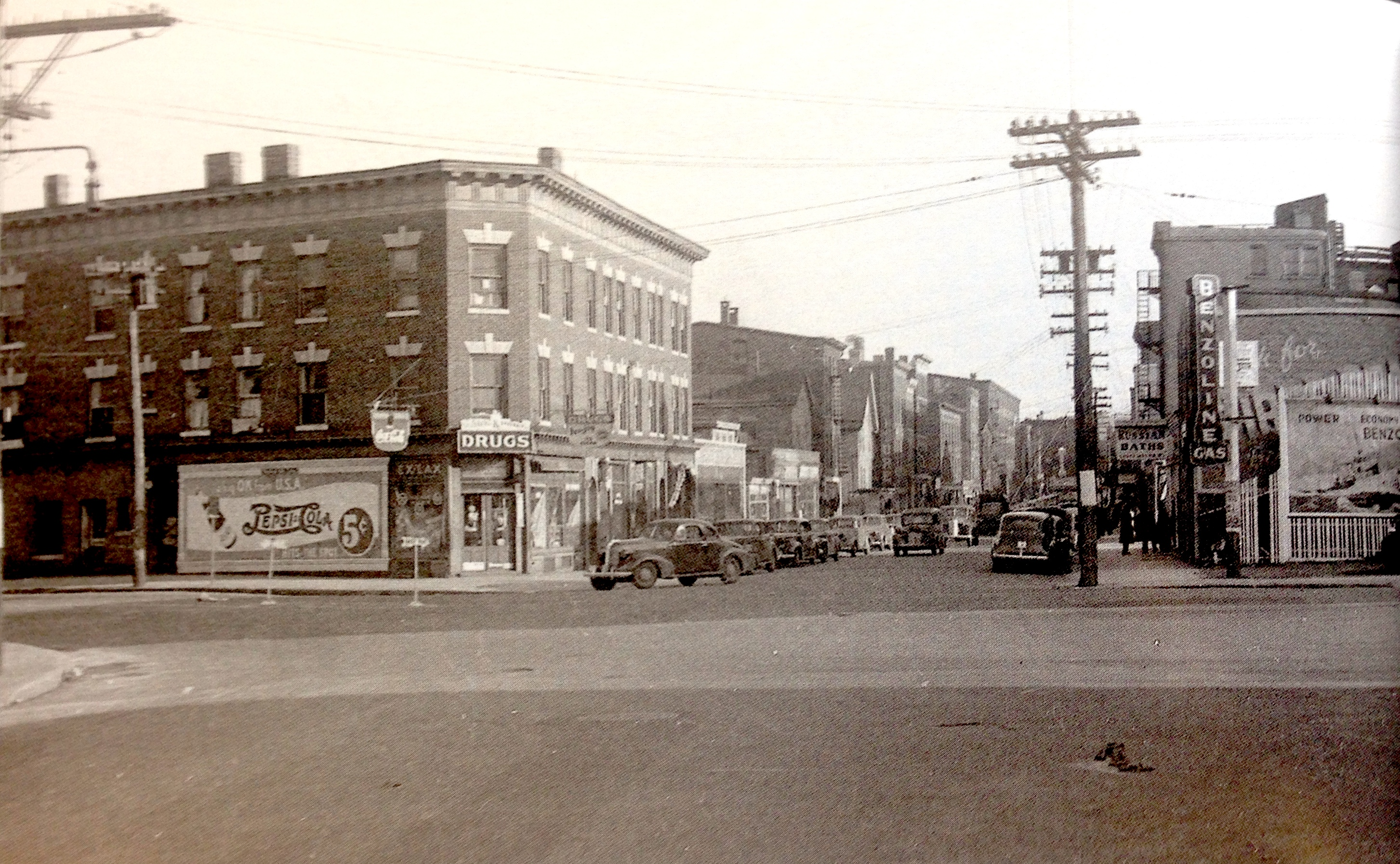 Oak Street in New Haven during the early 20th century. This area was fully demolished to make way for the Oak Street Connector.